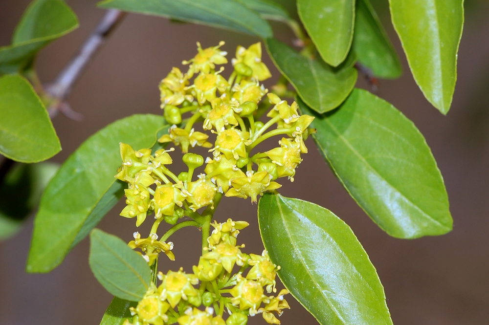 Jerusalem Thorn or Christ's Thorn (Paliurus spina-christi), Frouzet, Languedoc-Roussillon, France